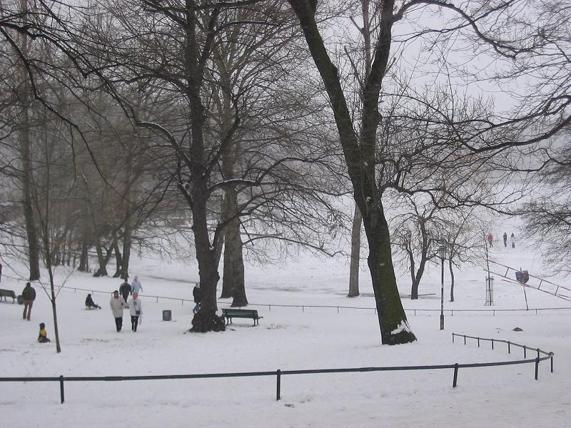 Frozen „Weißer See“ (german for white lake) in Berlin-Weißensee, part of the district Pankow.